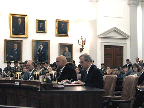 Governor of Minnesota Jesse Ventura (center) testifies on China's participation in the WTO and permanent normal trading relations with China.